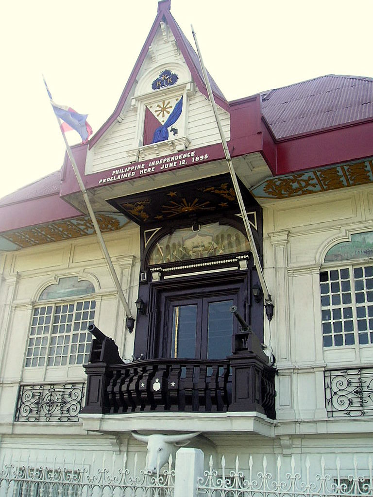 It is from its porch where Philippine independence from Spain was proclaimed in 12 June 1898. The house was built in 1845 and probably enlarged or improved in 1849 and in 1920. The Americans thought otherwise and colonized the Philippines before finally granting its own version of independence on 4 July 1946. President Diosdado Macapagal later restored June 12 as the Philippine Independence Day celebration and relegated July 4 as Filipino-American Friendship Day. General Aguinaldo's house was declared a national shrine shortly after his death in 1964.